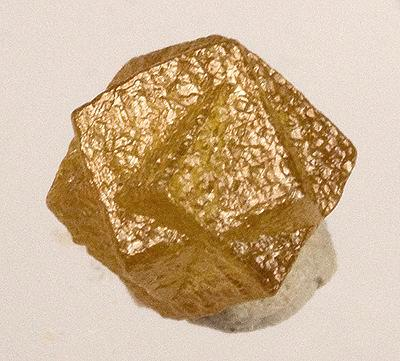 Diamond Locality: Democratic Republic of Congo (Zaïre) (Locality at ) Size: 0.4 x 0.4 x 0.4 cm (largest). A fine 5-piece set of five crystallized diamonds from Zaire. Two crystals are frosted, interpenetrating cubes of different yellow color; the large diamond is a gemmy, yellow, cuboctahedron; and the last two, very gemmy crystals with gorgeous, clove-brown color, appear to be modified octahedrons. The different crystal forms, colors and variable gemminess make for an extremely nice diamond suite. 2.80 carats total weight.